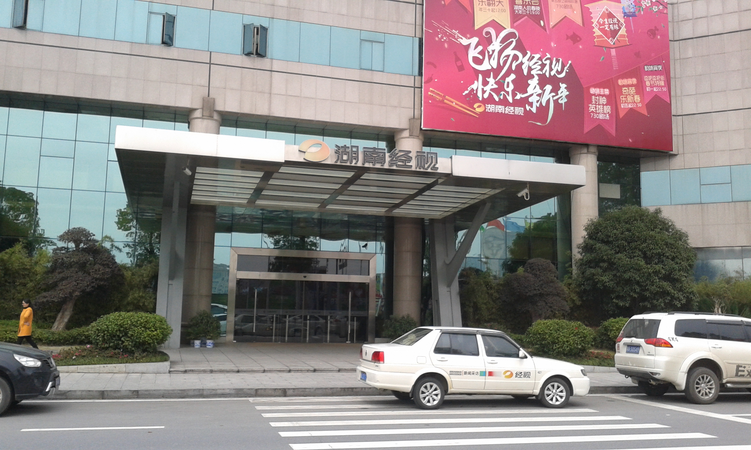 Hunan News Channel